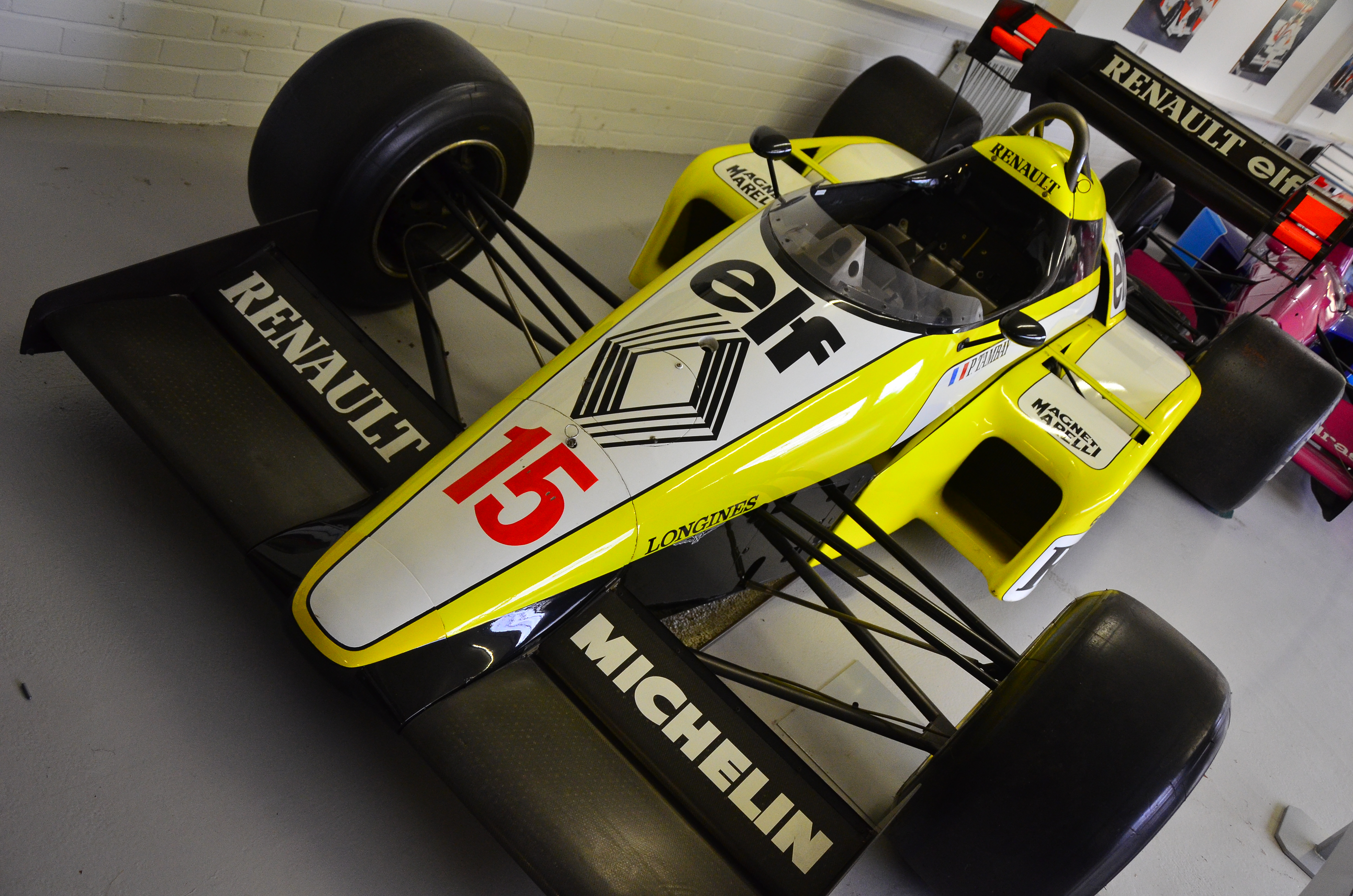 This car set fastest lap in the 1984 South African Grand Prix and took pole position and second place at the 1984 French Grand Prix at Dijon.